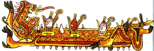 Cipactli